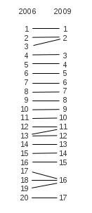 Alice Munro: "Dimension(s)" (2006 / 2009), section variants